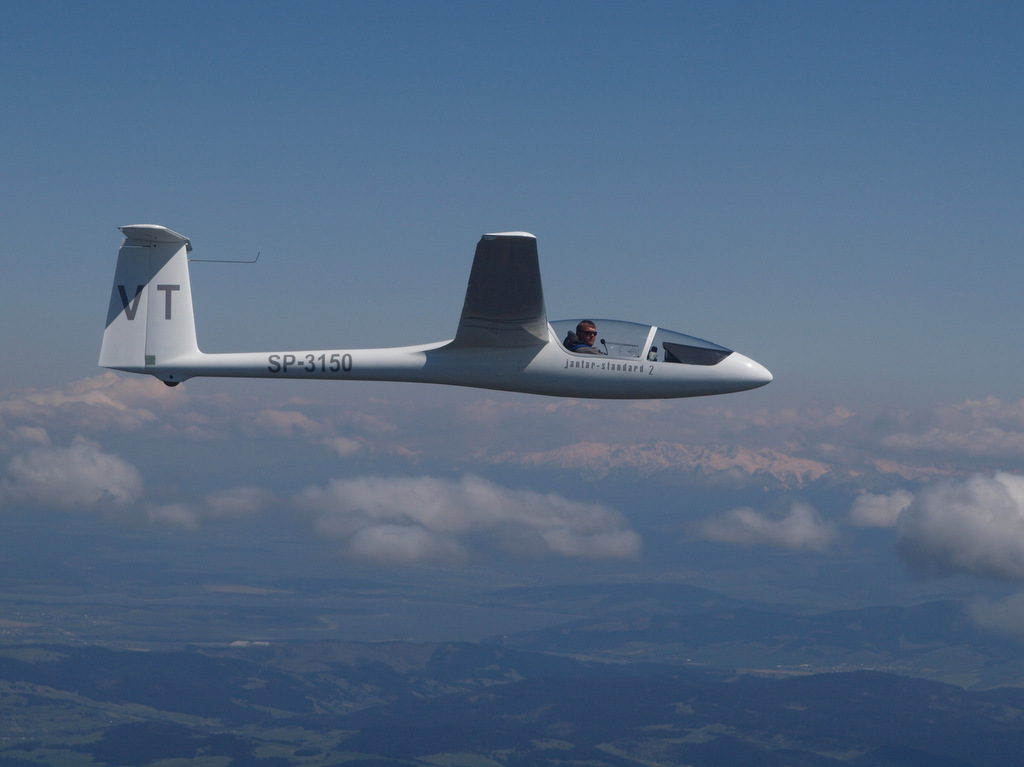 SZD 48 Jantar Stadnard over Baskidy Mountains